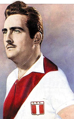 Alberto "Toto" Terry. A notable member of the Peru national football team, and constant member during the 1950s decade. Later had a career as a coach.